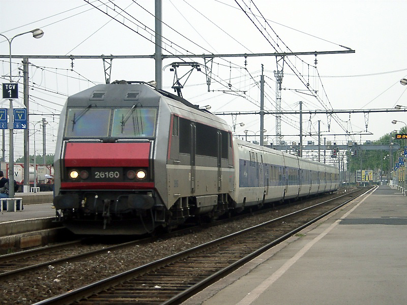 Talgo "Mare Nostrum" operated by locomotive type BB26000 at Narbonne Station in France.